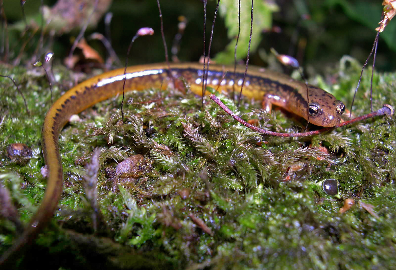 A Northern two-lined salamander (Eurycea bislineata) observed at the Abernathy Field Station in Washington County, Pennsylvania in 2003. For more information on the Abernathy Field Station, please